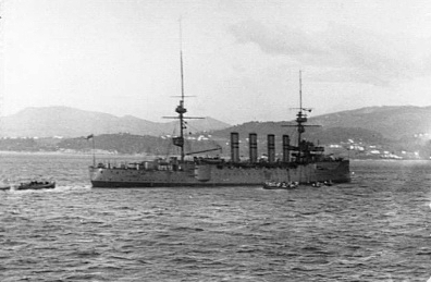 AWM caption : "Starboard quarter view of the Devonshire class cruiser HMS Roxburgh during the period between 1900 and 1914." Note that this version has some extraneous material trimmed from around the edges.